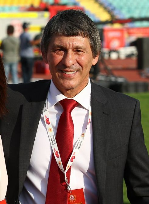 Valentin Yordanov Dimitrov (born January 26, 1960), also transliterated Jordanov, is a retired Bulgarian freestyle wrestler who competed in the up to 52 kg weight class. He is an Olympic gold medalist, seven-time world champion, seven-time European champion, and the only wrestler to hold 10 medals (seven gold, two silver and one bronze) from world championships